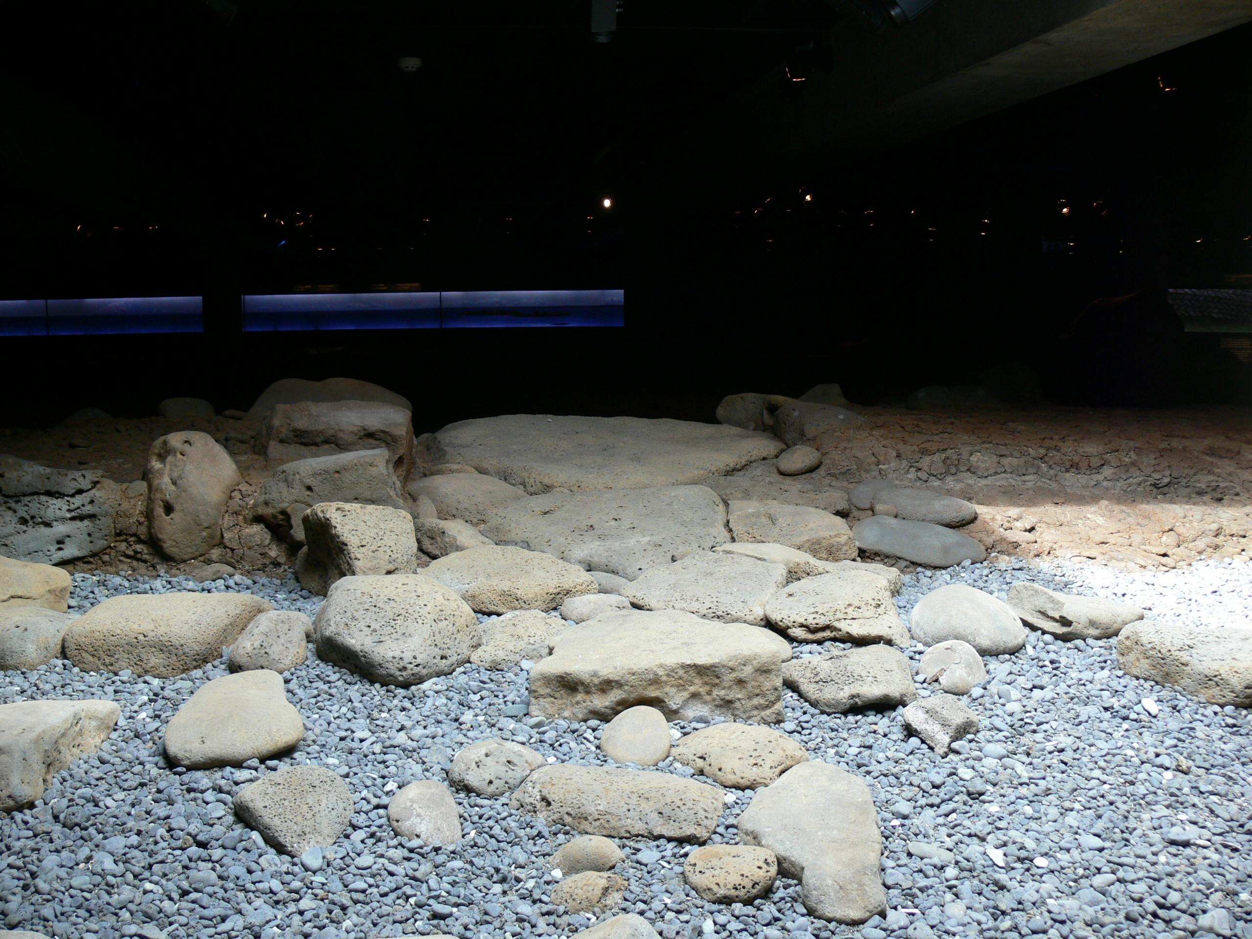 Reykjavik 871 +/-2 Exhibition. Pavement at the porch of an early Viking farm house in Reykjavik.